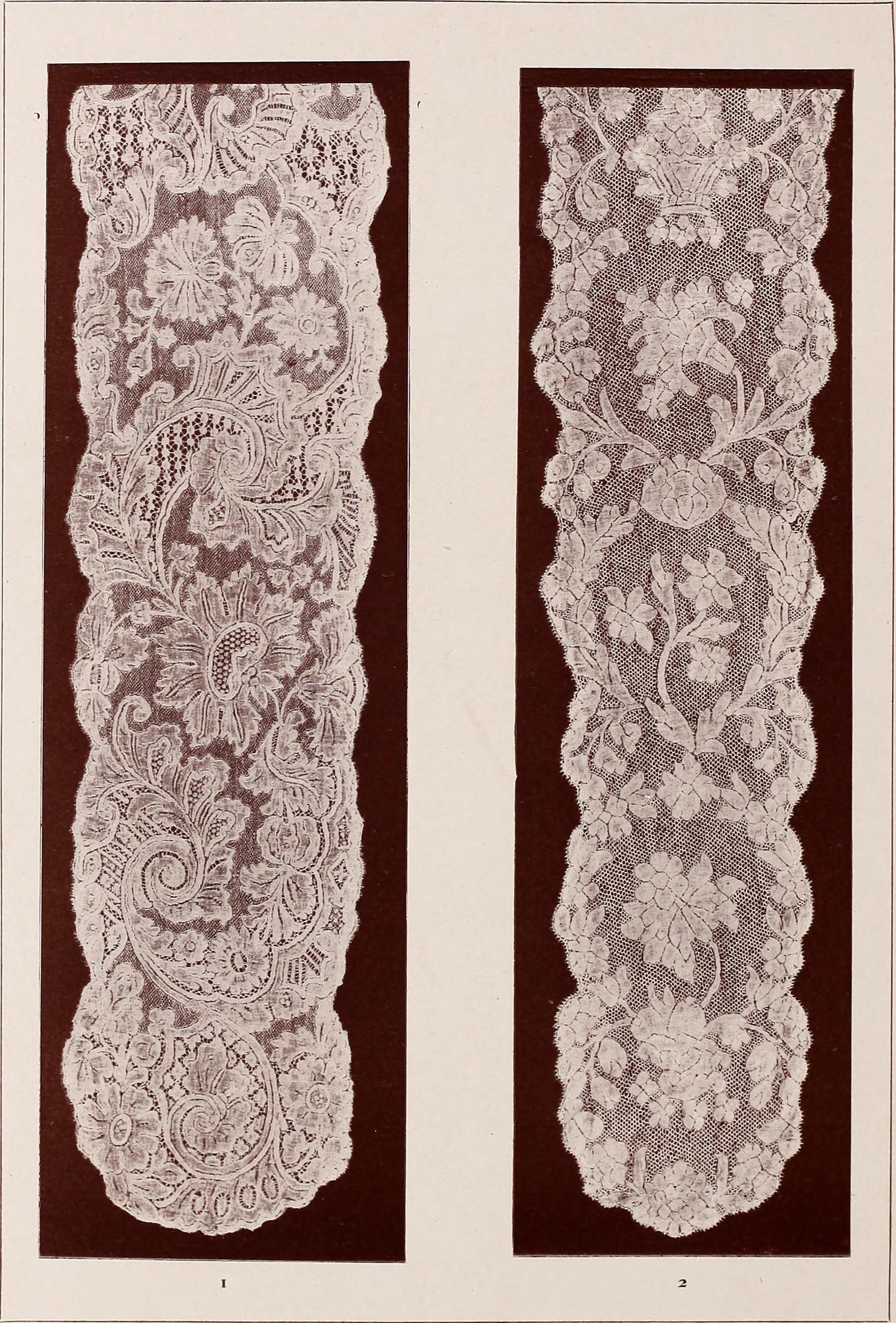 Title: A history of hand-made lace : dealing with the origin of lace, the growth of the great lace centres, the mode of manufacture, the methods of distinguishing and the care of various kinds of lace Year: 1900 (1900s) Authors: Jackson, Emily, 1861- Subjects: Lace and lace making Publisher: London : L. Upcott Gill New York : C. Scribner's Sons Text Appearing Before Image: Lace-like border, 2; inches wide, from Manilla,Philippine Islands ; nineteenth century. Text Appearing After Image: (i) Lappet of eighteenth =century Mechlin Bobbin Lace, 4; inches wide. The main ground ofthe compartments is of small meshes; here and there the intervening groups of ornamentare lightened by the insertion of fancy open bars. (2) Lappet (one of a pair) of Valenciennes Bobbin Lace, 3; inches wide. French, eighteenthcentury. A DICTIONARY OF LACE. 181 specially woven near Barcelona for the purpose, and it is used for the blondelaces throughout the country. A Spanish womans mantilla is held sacred bylaw, and cannot be seized for debt. Margherita Lace. A lace-like fabric made by embroidering on machine-made net; it is aninvention of the nineteenth century, named after the present Queen of Italy, andis made in Venice in large quantities at the present day. Mechlin Lace. Before 1665, nearly all lace made in Flanders was called Malines. The pillowlaces of Ypres, Bruges, Dunkirk, and Courtrai were so named in Paris. In 1681,a visitor to Flanders notes that The common people here, as throughout